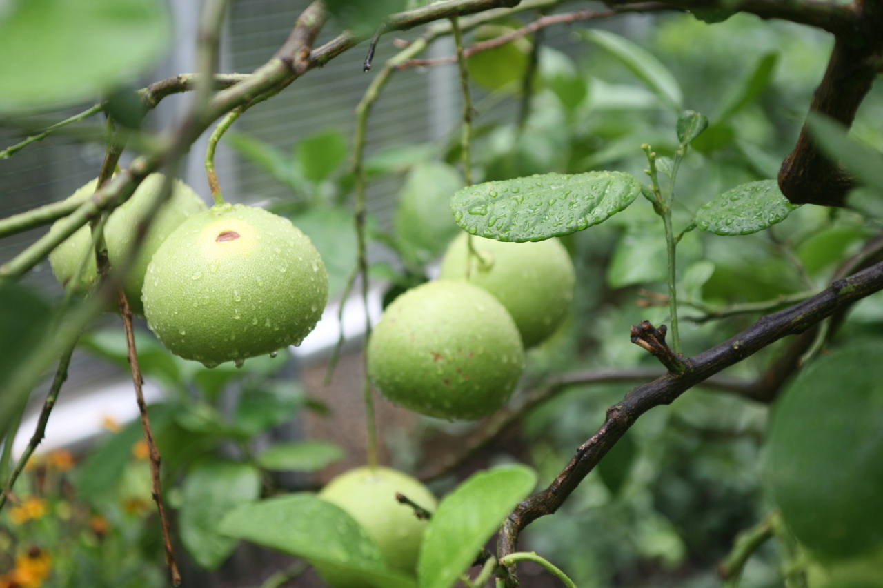 Melogold Grapefruit (Citrus) 'Melogold' Melogold green on tree